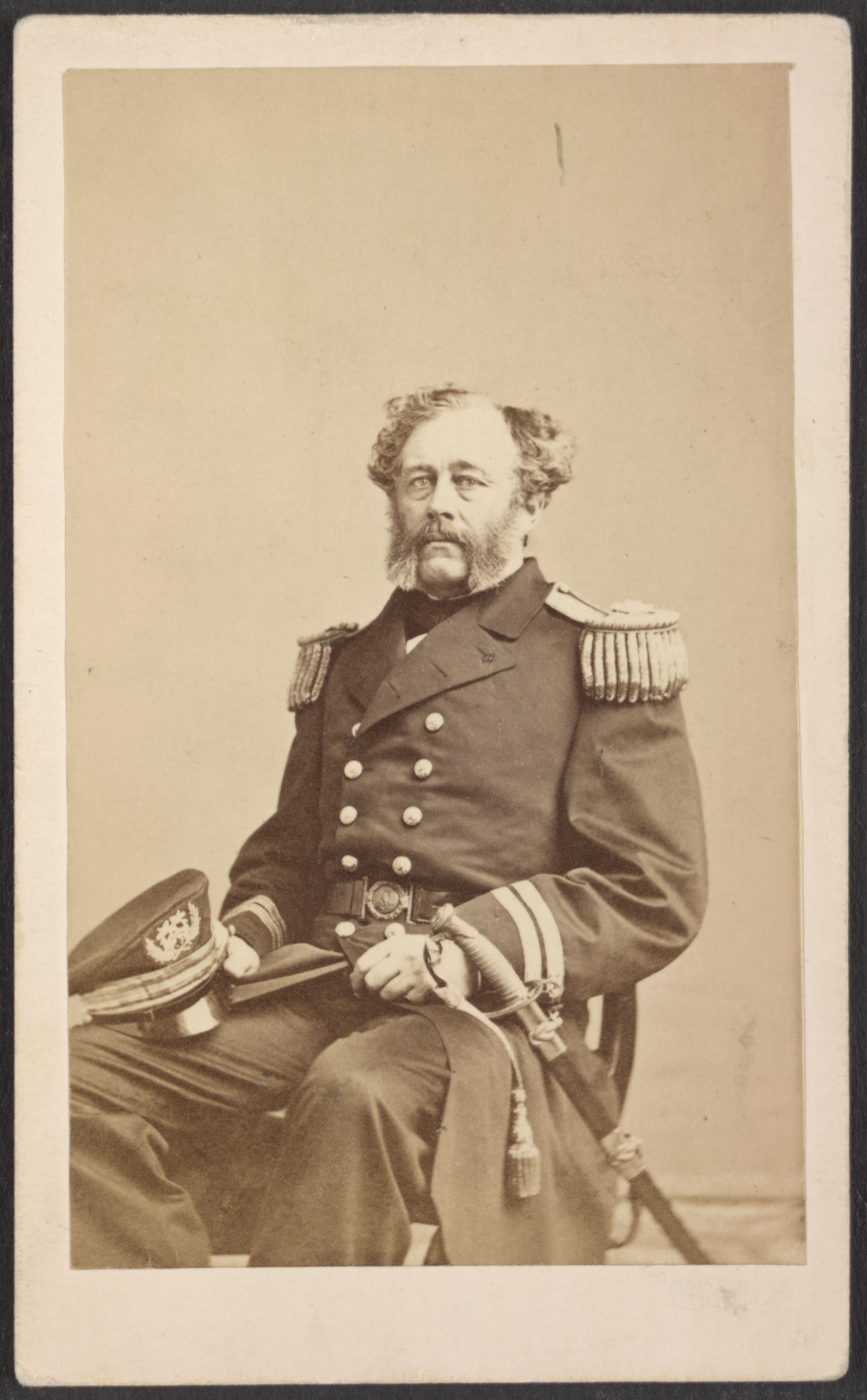 Title: Commander James H. Strong of U.S.S. Mohawk, Flag, and Monongahela in uniform with sword] / J. Gurney & Son, 707 Broadway, N.Y Abstract/medium: 1 photograph : albumen print on card mount ; mount 10 x 7 cm (carte de visite format)